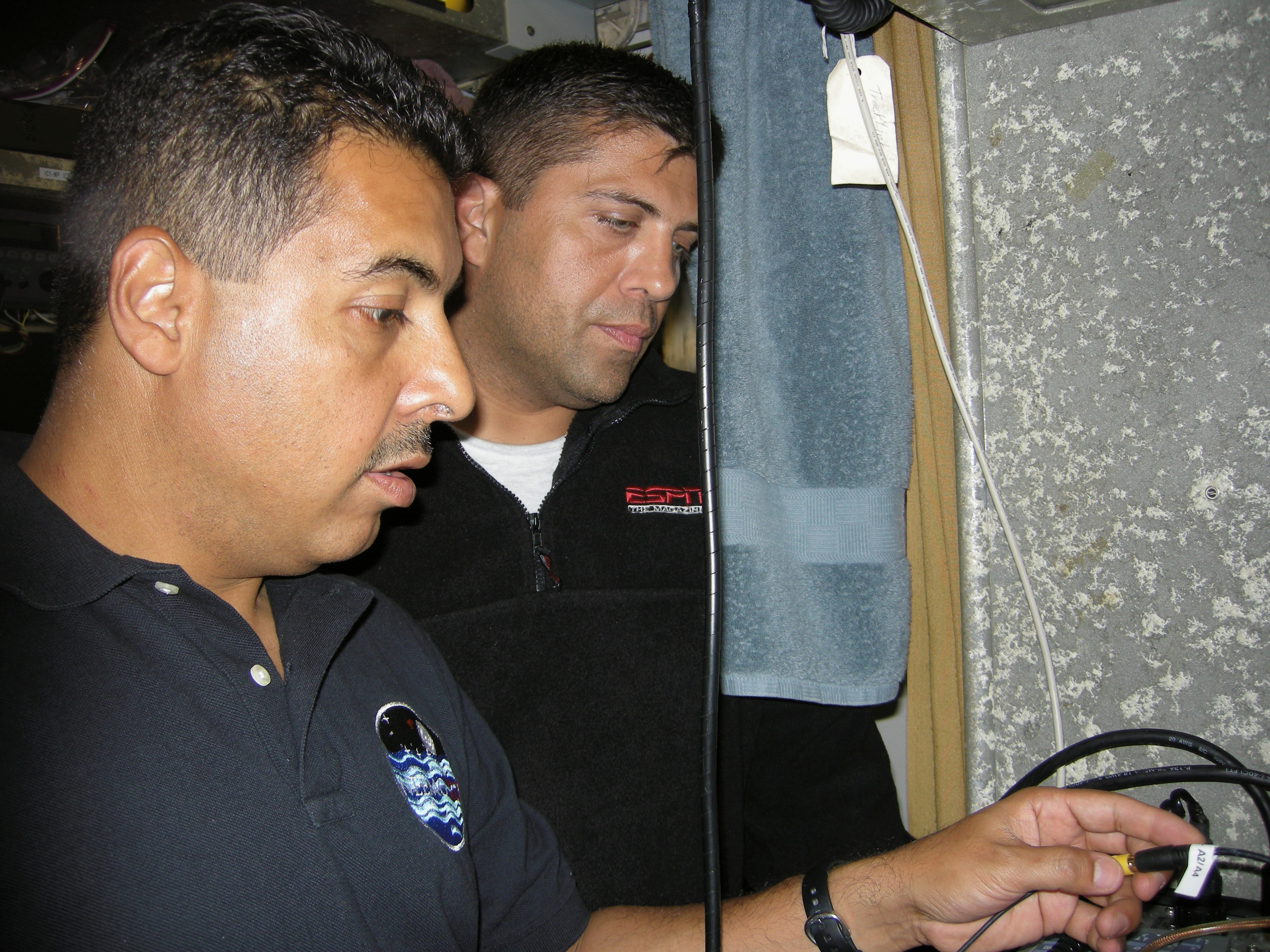 NASA astronaut/aquanaut José Hernández and Aquarius Reef Base habitat technician Dominic Landucci setting up a remotely operated vehicle (ROV) from inside the Aquarius underwater habitat during the NEEMO 12 mission in May 2007. NASA photo JSC2007-E-23418.